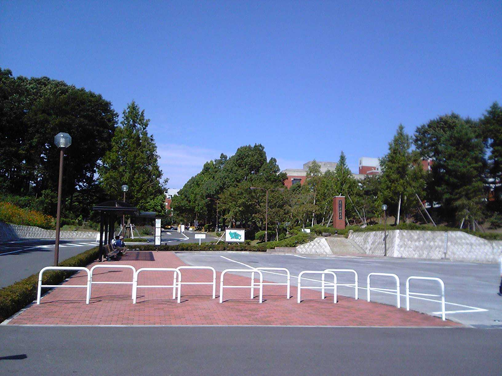 東京薬科大学（2005年10月1日投稿者が撮影） Licensing category:八王子市の画像 Category:大学の画像